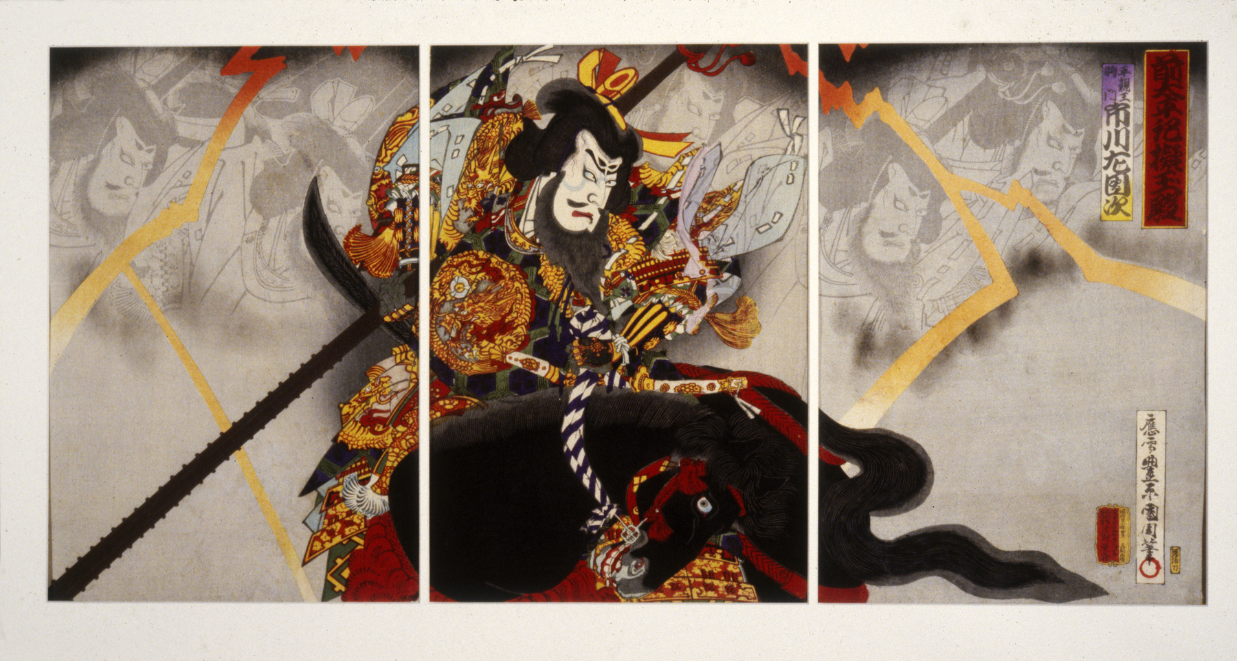 Taira Masakado (901-940), an evil usurper of the throne, charges into battle surrounded by look-alike decoys. Masakado used magic to create ghostly doubles of himself, making it difficult for his enemies to find him on the battlefield. He was finally killed by a warrior who crept into his camp at night and felt the wrists of all the sleeping Masakados until he found one with a pulse.